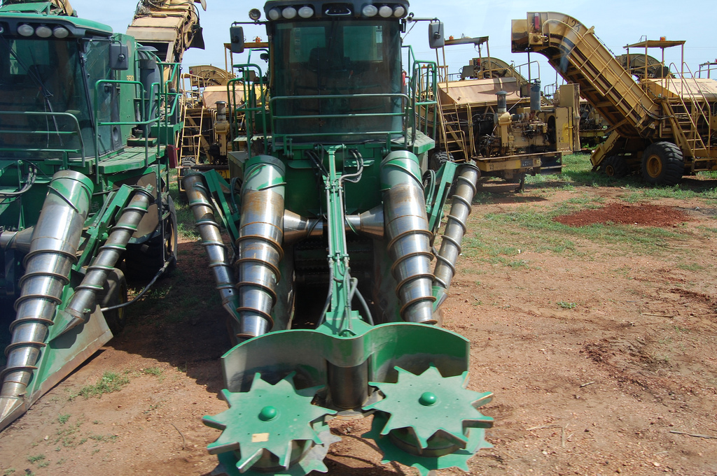 Cane harvester – A piece of the large machinery required to harvest and process sugar